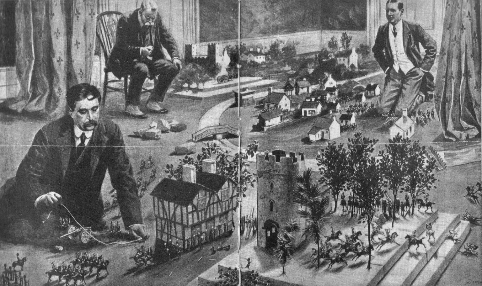 H. G. Wells playing a wargame: This illustration was first published in Illustrated London News (25 January 1913). [1]